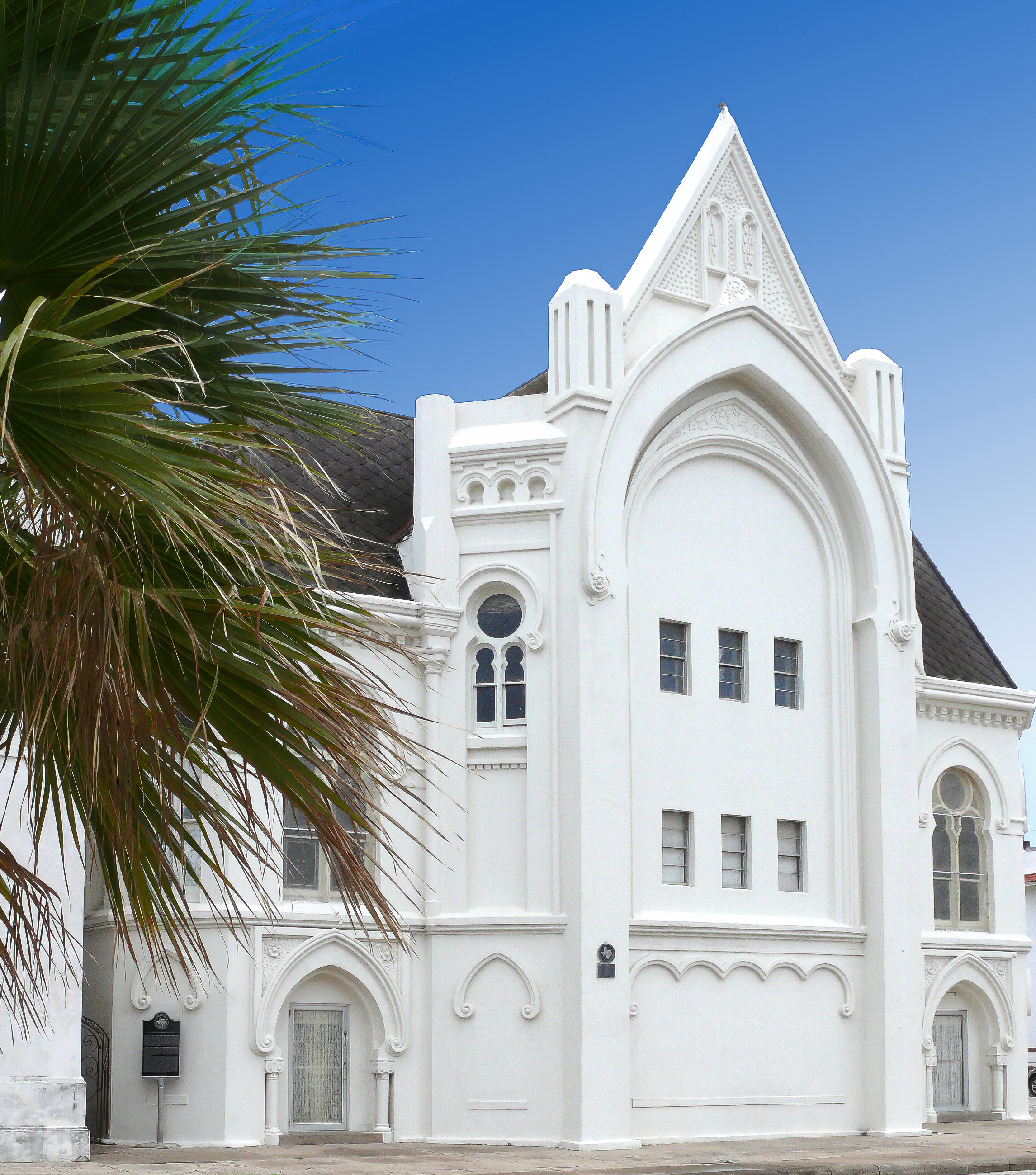 Erected in 1870. Cultural and religious center for 85 years. Second oldest temple in Texas. Converted to Masonic Temple in 1953 when the original ornate facade was changed to this plain look. Henry Cohen, rabbi from 1888-1950, was noted adviser and beloved humanitarian to the entire city.